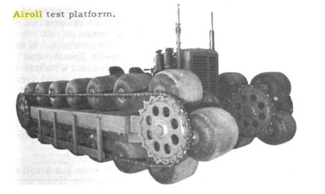 In 1960 the BorgWarner Corporation in conjunction with the US Navy constructed and tested this vehicle to test the principle of Airoll amphibious locomotion